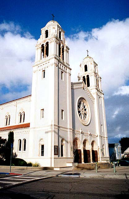 St. Vincent de Paul Catholic Church, Petaluma, CA 2005